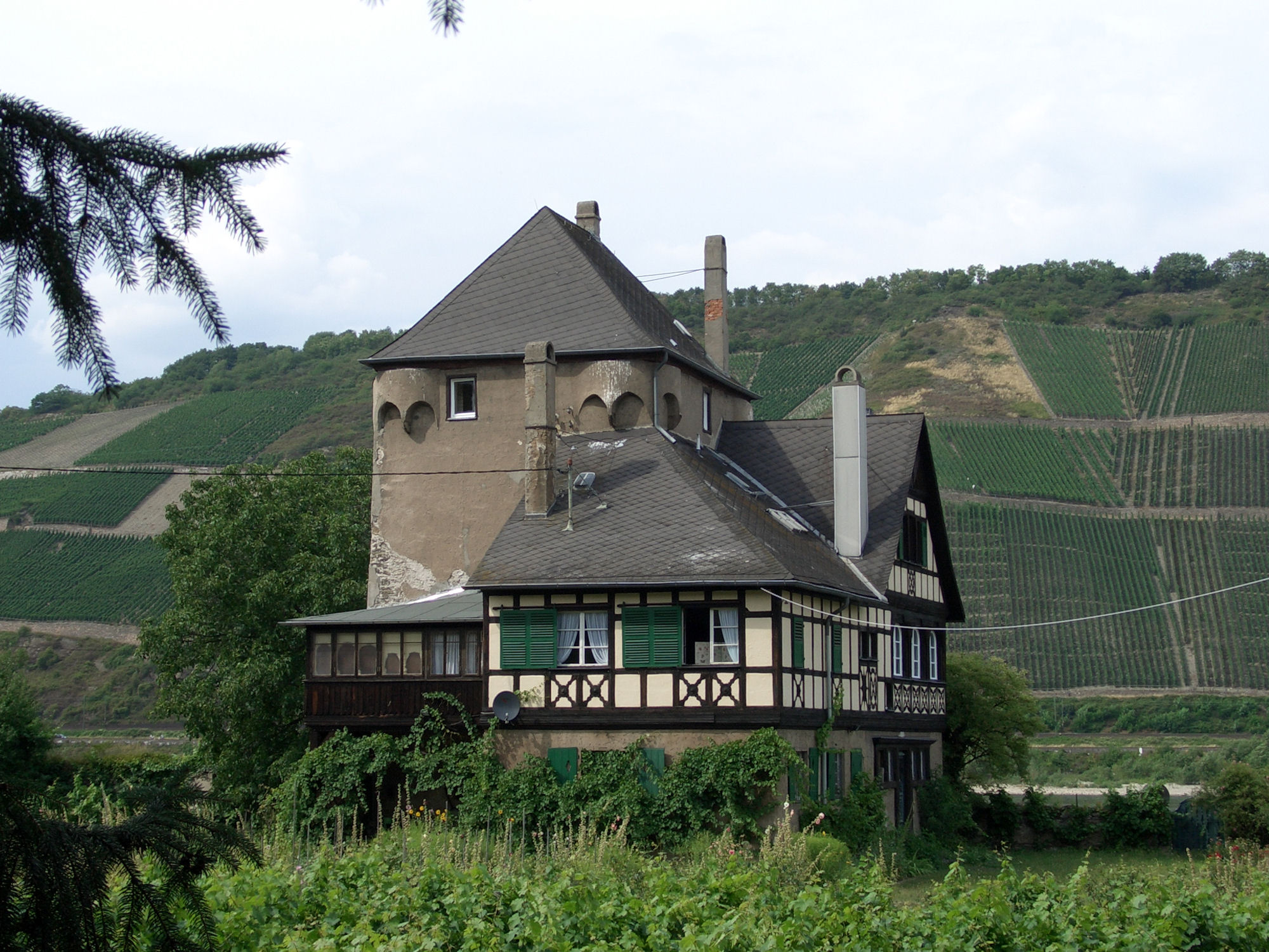 Burg Osterspai in Osterspai